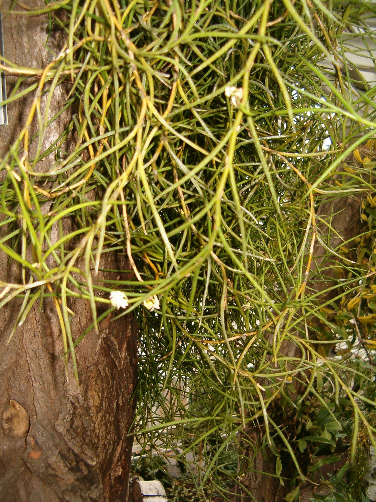 Location: Botanical Gardens Berlin Dahlem